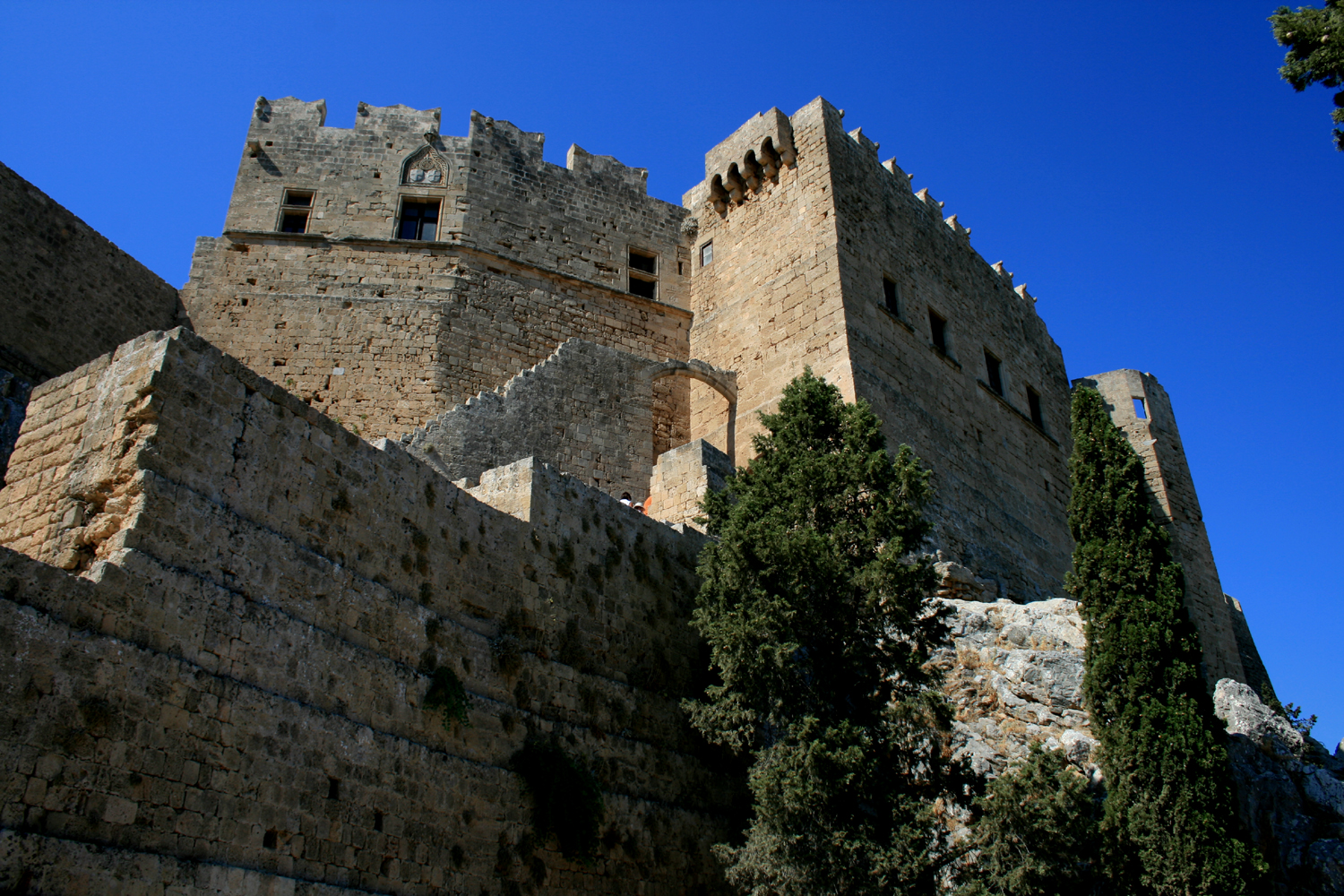 Lindos Castle Hrad Lindos Date=August 2007 Author= Karelj